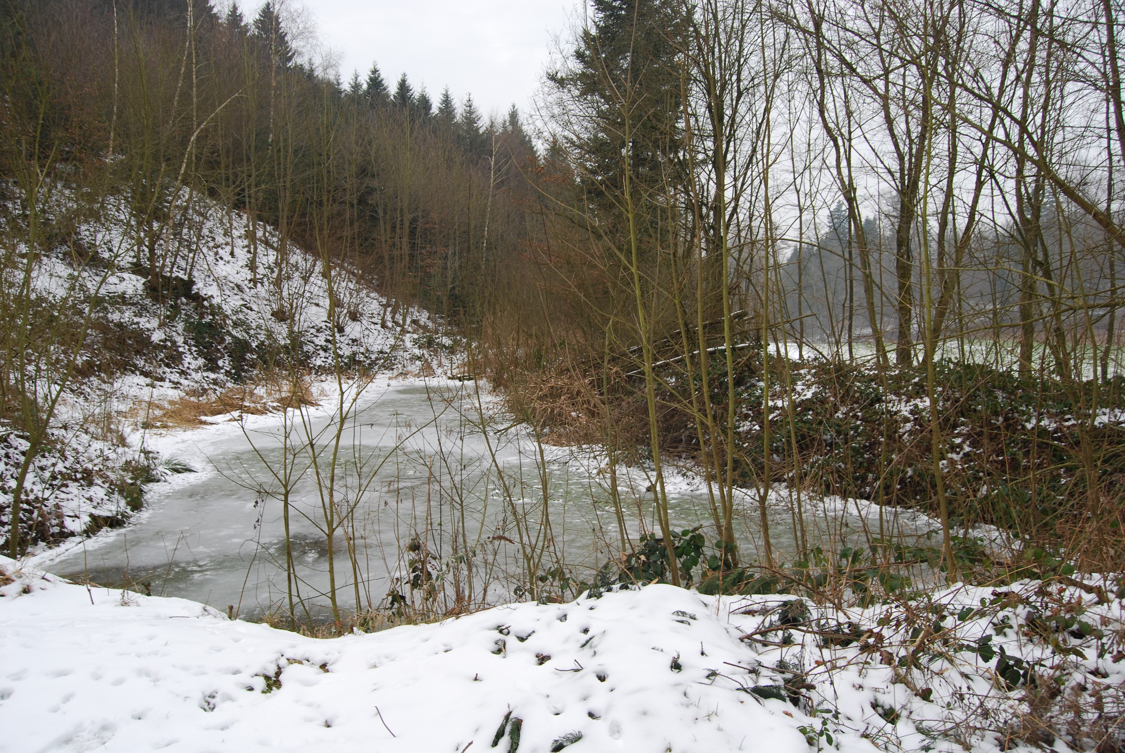 Frozen forest pond at Dintikon in the south of the road from Ammerswil to Dintikon, canton of Aargau, SwitzerlandEsperanto: Glaciĝinta arbarlageto en Dintikon sude apud la kamparvojo de Ammerswil al Dintikon, Kantono Argovio, Svislando